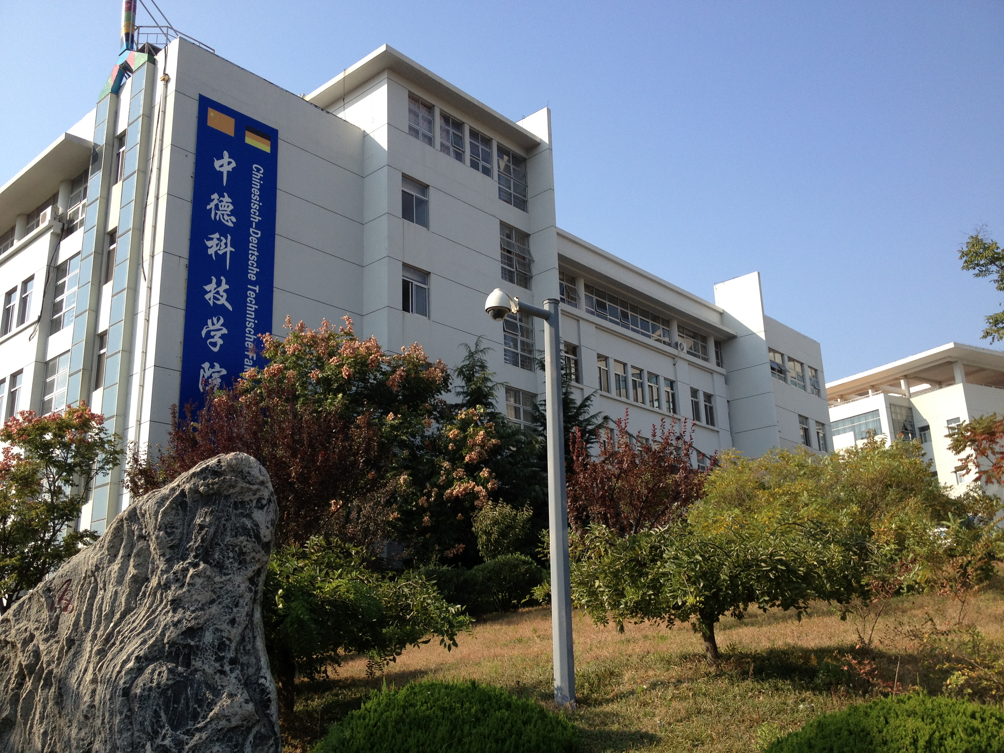 College building of the Chinese-German Technical Faculty of QUST at Laoshan Campus